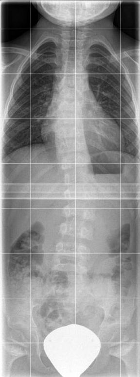 X-ray of 7 yrs old girl with spondylometaphyseal dysplasia type Kozlowski showing femoral metaphyseal deformity and moderate platyspondylia